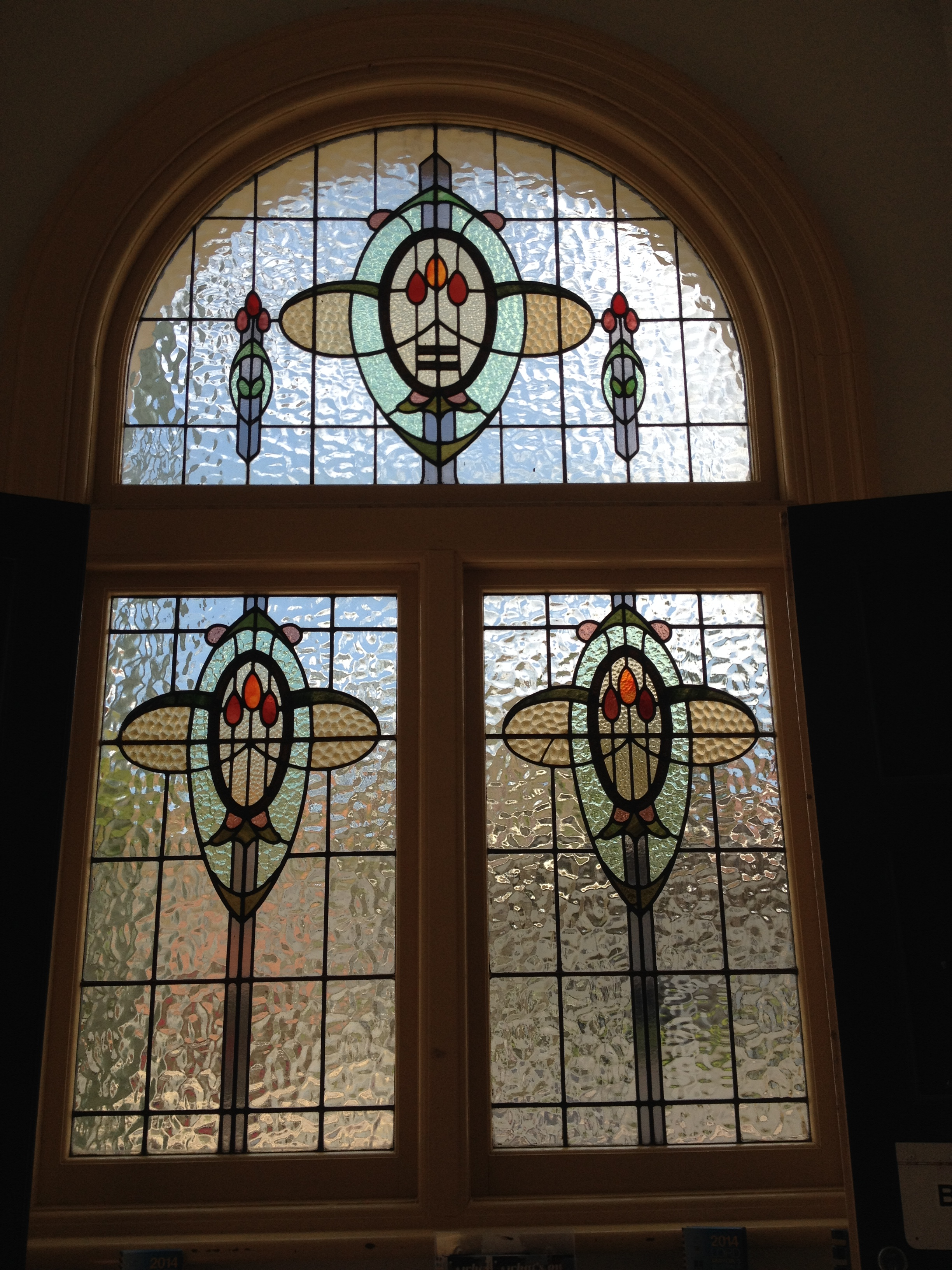 Stained glass window at the entrance to Hamilton Town Hall, Brisbane